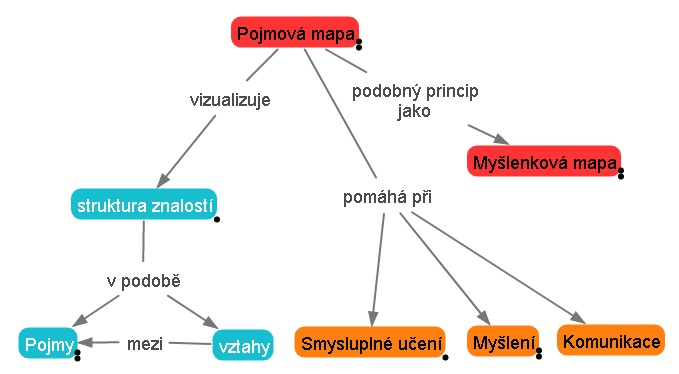 Concept map as a vizualization of knowlidge structure create using SW ContextMinds